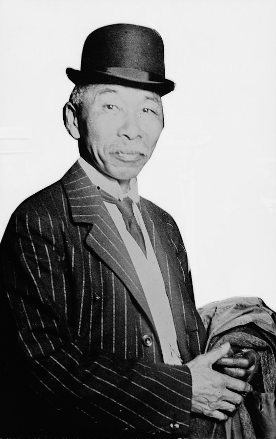 Baron Hayashi